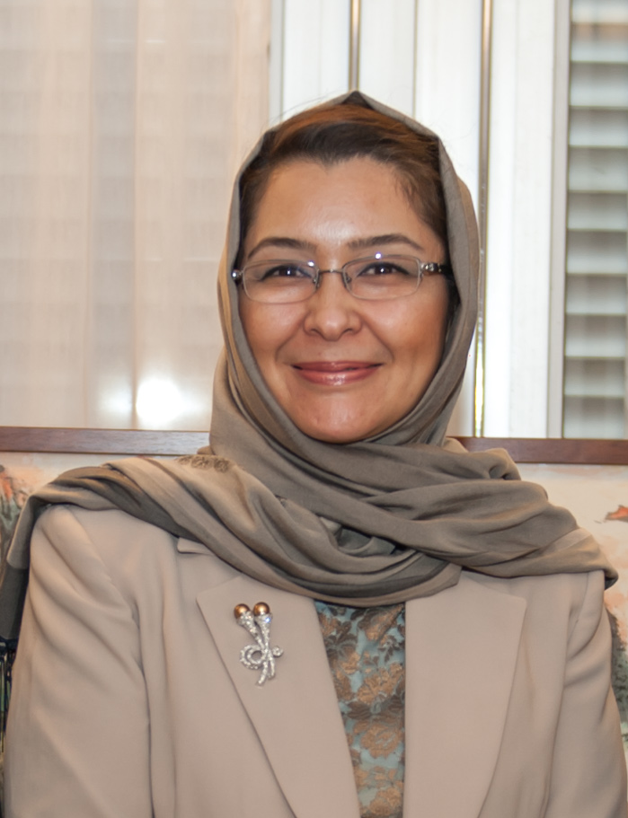 H.E. Mr. Baryalai Hassam Deputy Minister of Communications, H.E. Ms. Suraya Dalil, Ambassador, Permanent Representative of Afghanistan with Mr. Houlin Zhao, ITU Secretary-General.